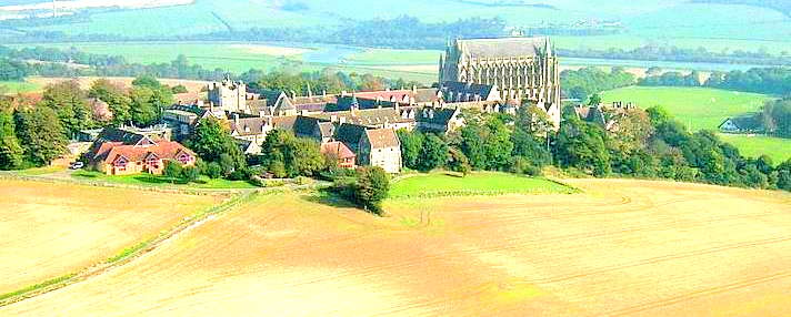 Lancing College in the Summer